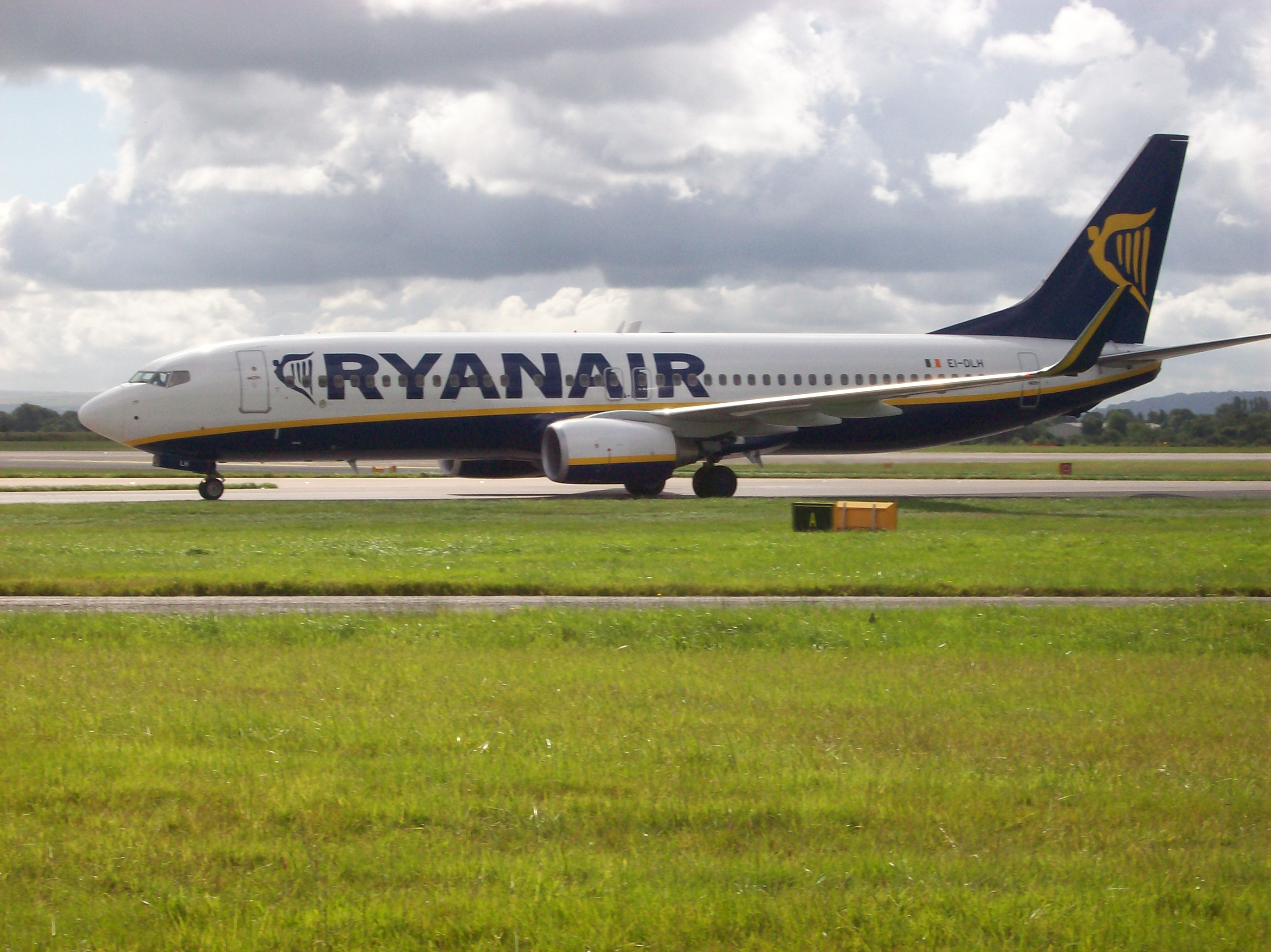 I Took This Photo